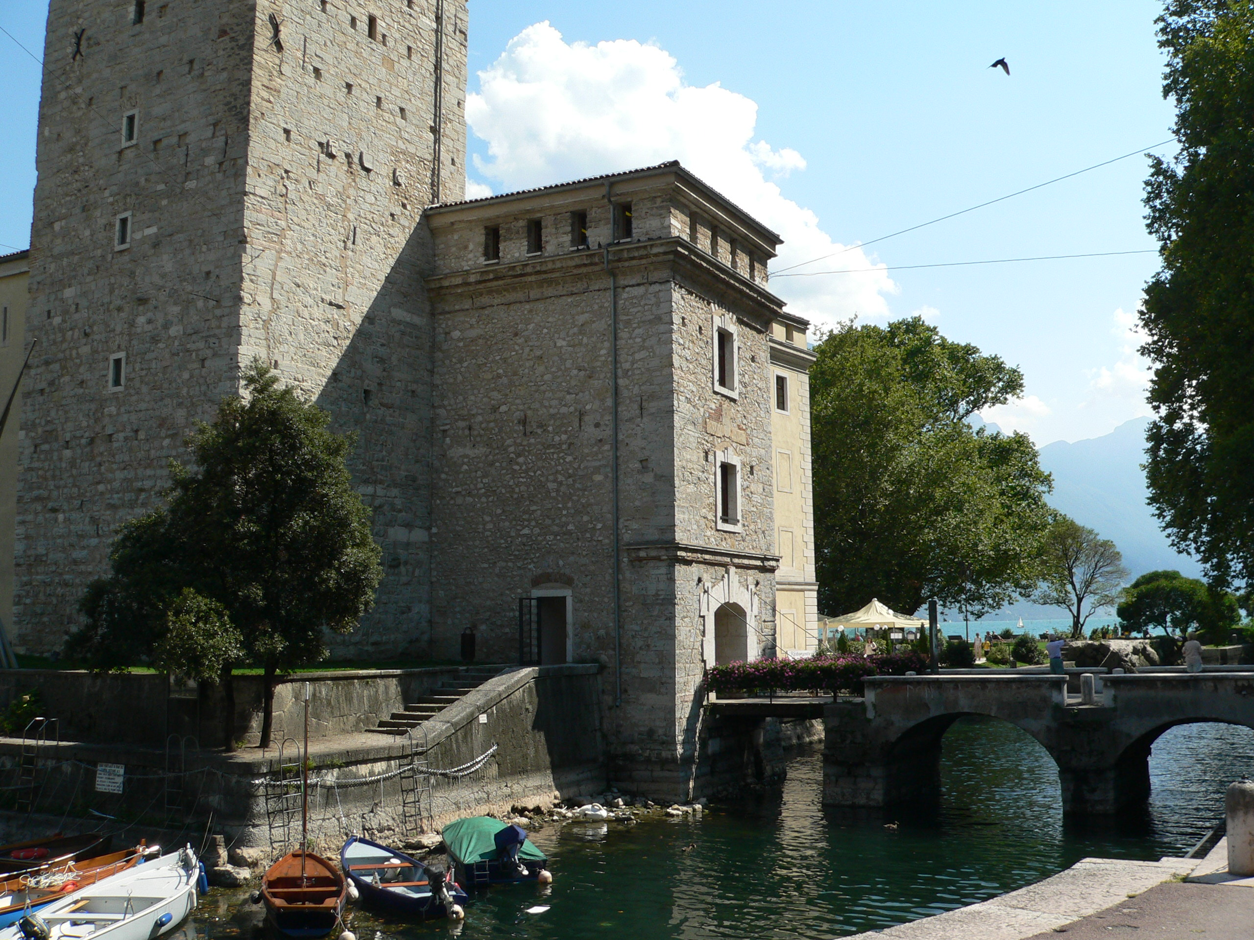 Partial View of the castle Rocca di Riva of Riva del Garda